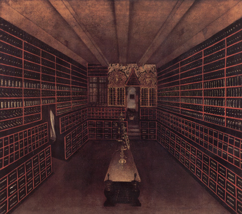 Old painting of the interior of the royal pharmacy Elefantapoteket in Købmagergade in Copenhagen, Denmark